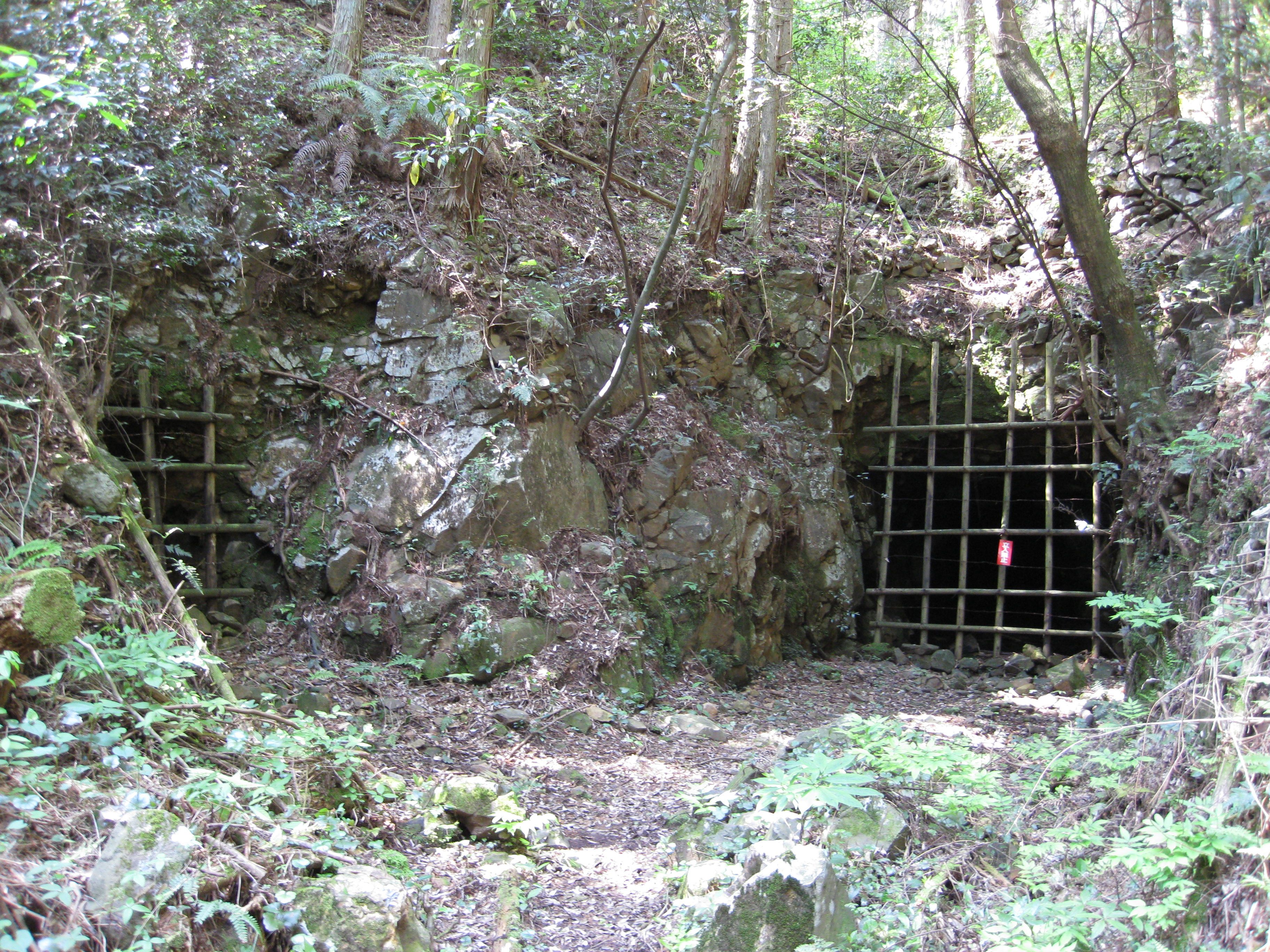 Yamagano Gold Mine in Kagoshima, Japan